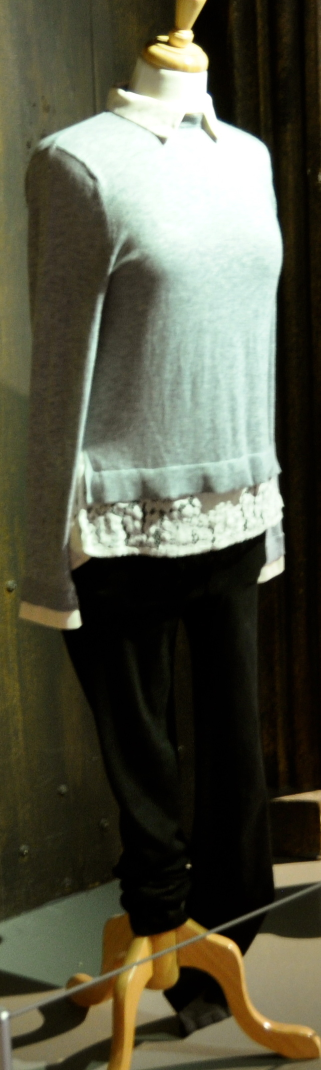 DWE Cardiff Bay, Port Teigr November 2016 Doctor Who Experience